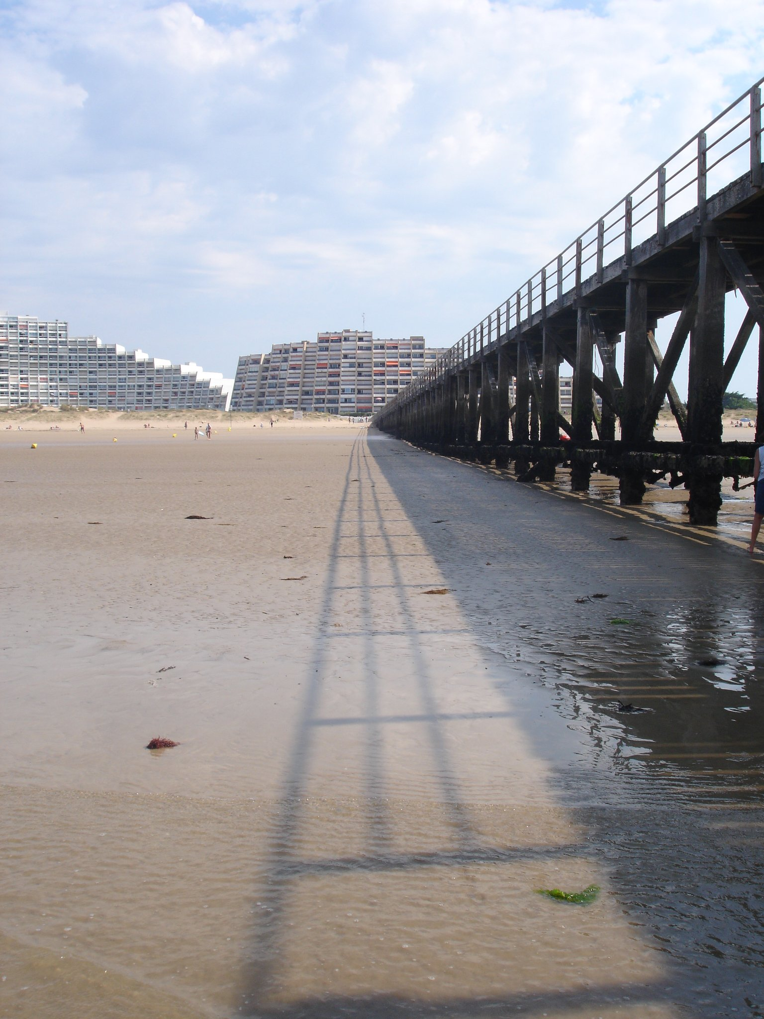 France, AVendée (85), Saint-Jean-de-Monts